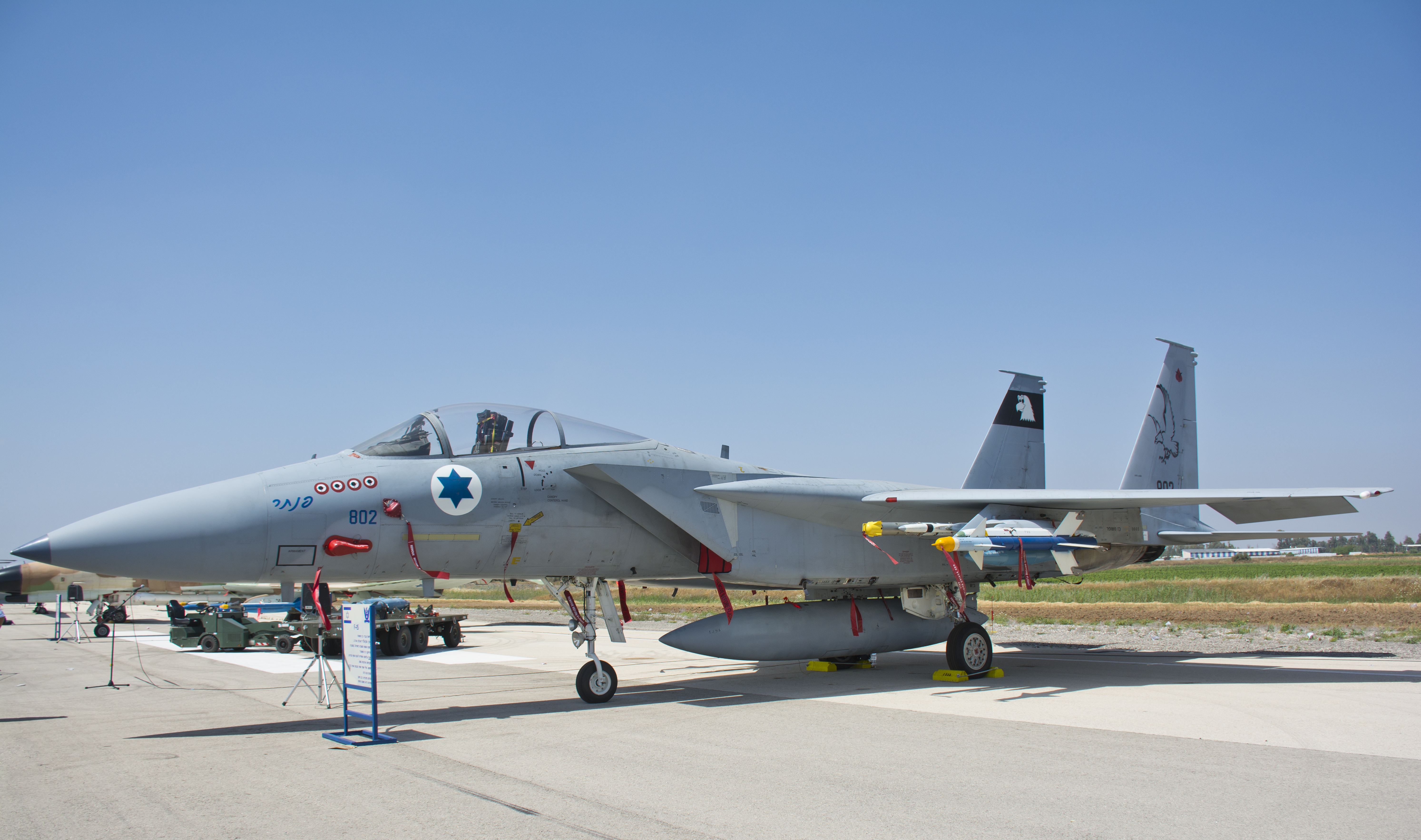 IAF F-15C Baz (Baz Meshupar) of the Israeli Air Force, Independence Day 2017